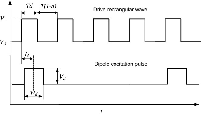 Top: The drive waveform for a digital ion trap (3D), Bottom: the dipole excitation waveform, both generated by a high speed digital signal processor and power MOS FET switches